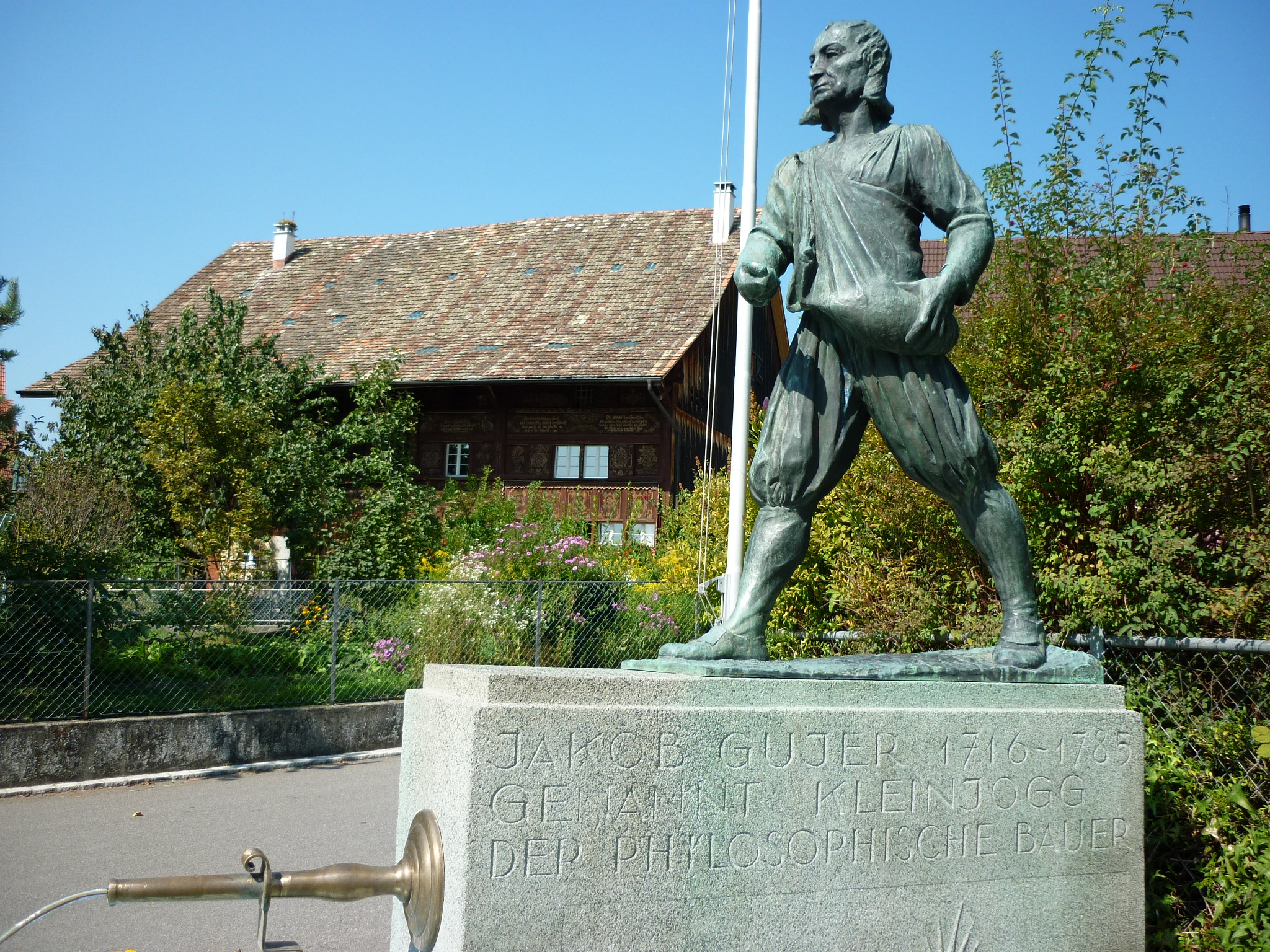 Wermatswil ZH, Switzerland